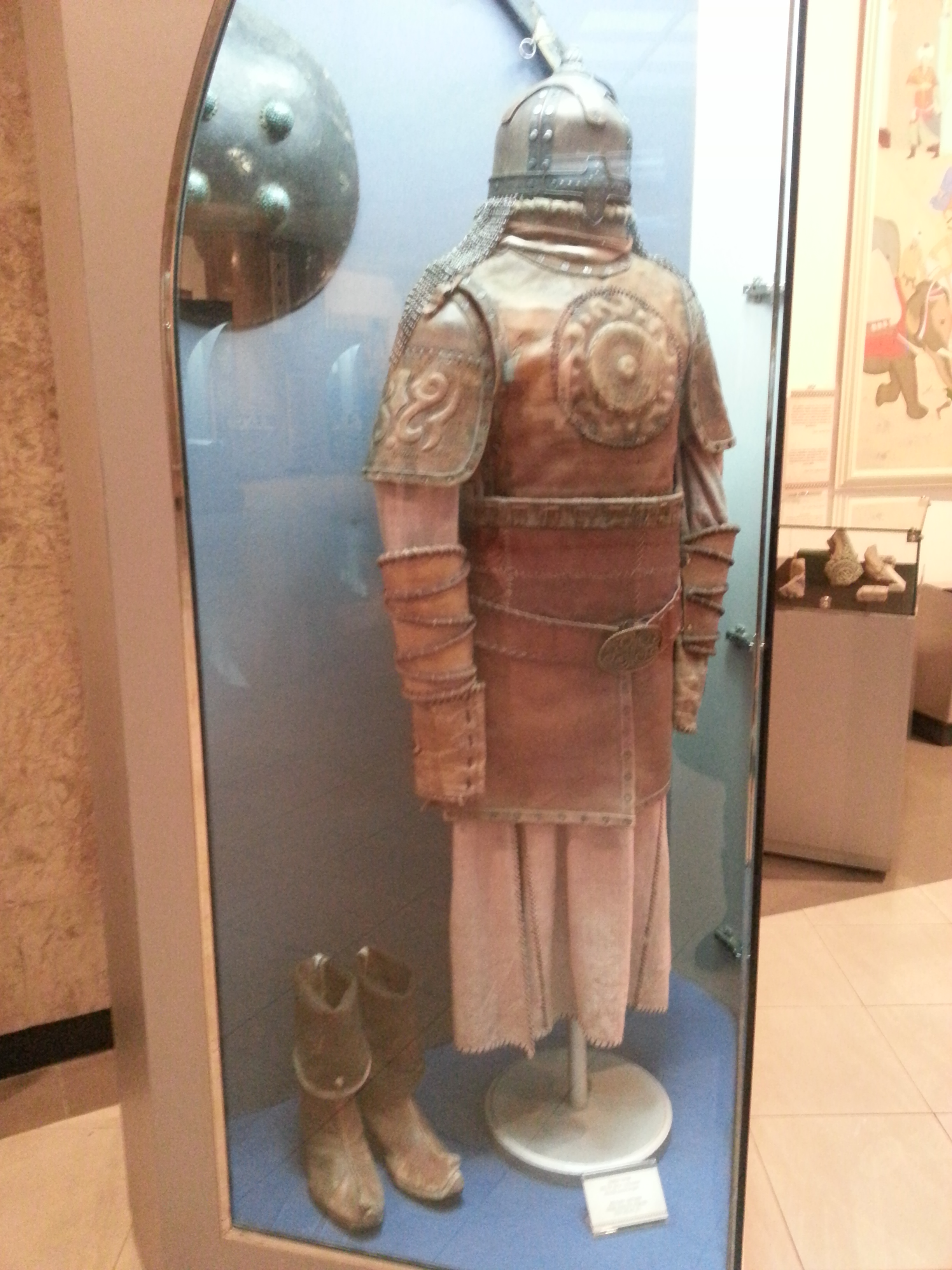 Clothes of the warrior (XIV-XV centuries. Samarkand. History Museum of Timuridov. Tashkent